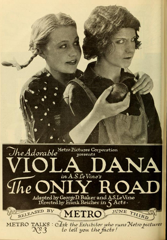 Advertisement in Moving Picture World for the American western film The Only Road (1918).